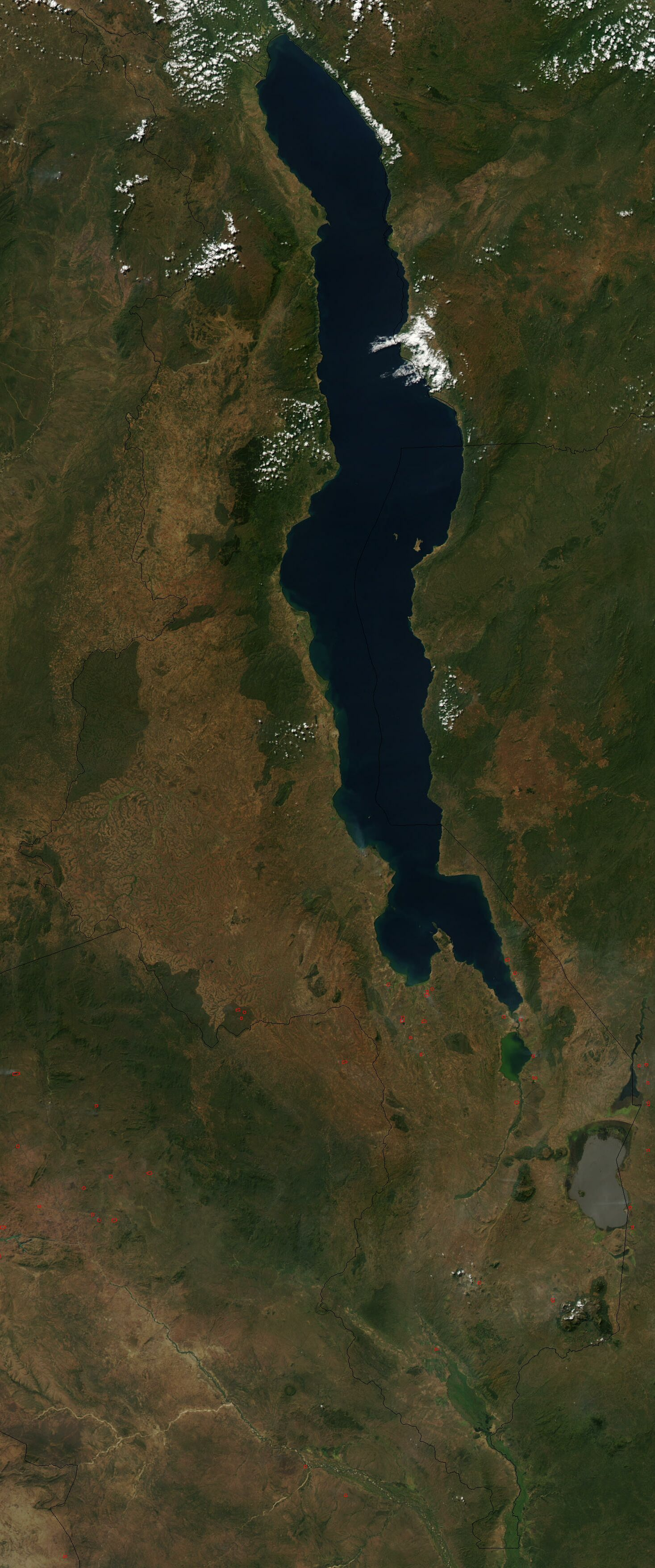 Satellite image of Malawi in June 2003.